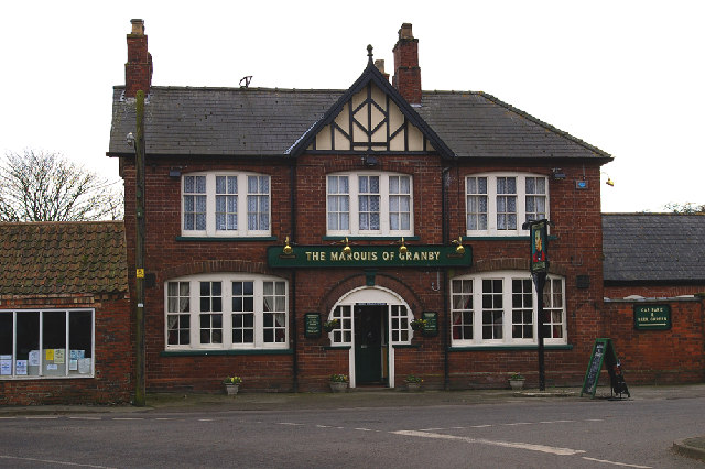 The Marquis of Granby